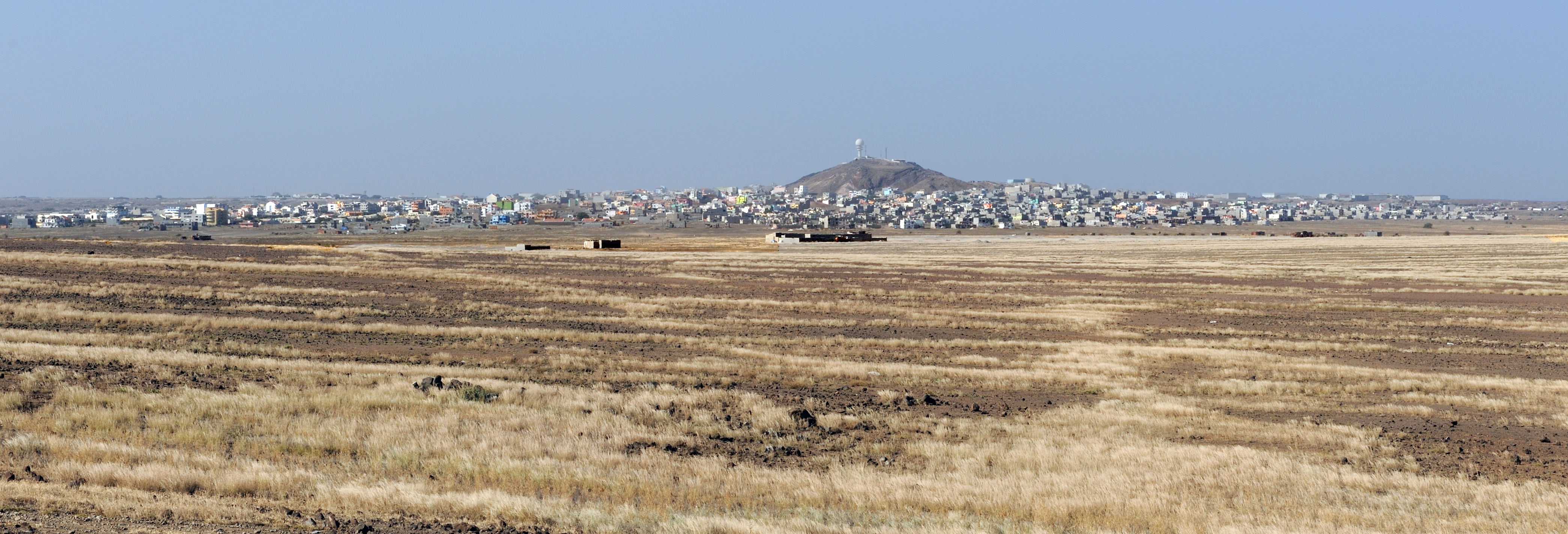 Cape Verde, isle of Sal: vista from the north of the town of Espargos. On top of the hill: the radar tower of Amilcar Cabra International Airport, located in the south of Espargos.